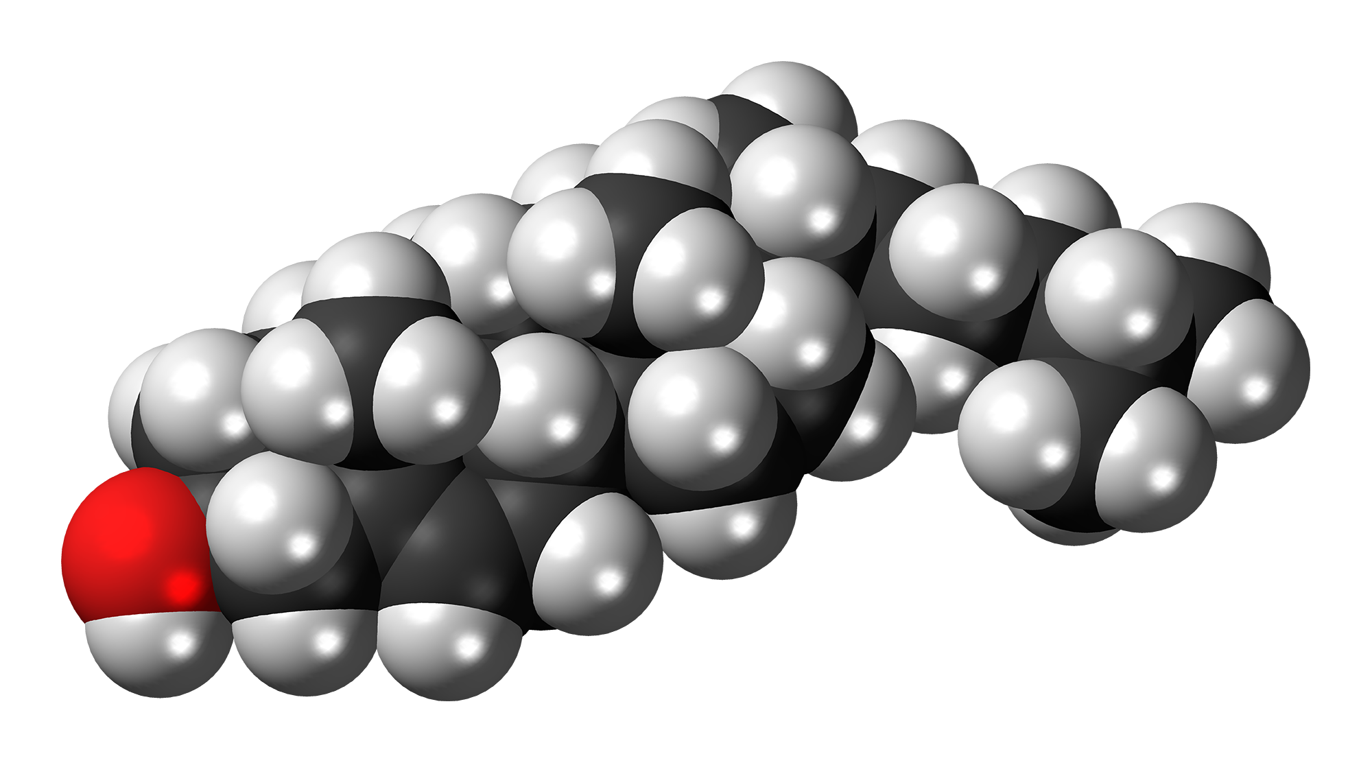 Space-filling model of the cholesterol molecule, a compound essential for animal life that forms the membranes of animal cells. Color code: Carbon, C: black Hydrogen, H: white Oxygen, O: red